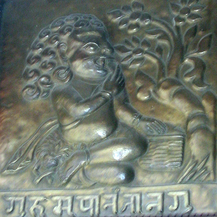 Plaque showing the demon Gurumapa at Itum Baha, Kathmandu, Nepal.